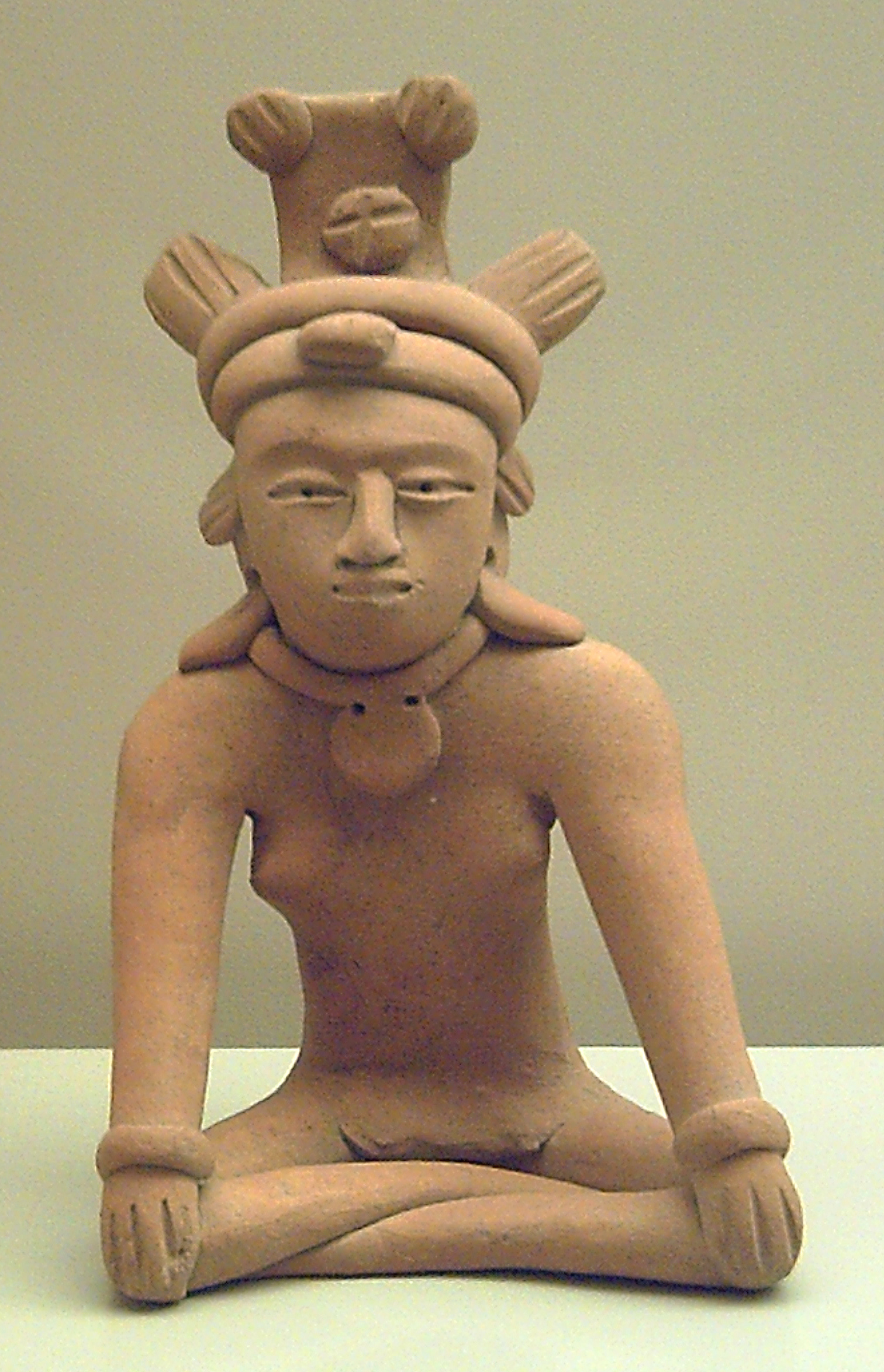 Ceramic female figure with a rich headdress and jewels. El Tajín culture. Remojadas Superior II phase. Gulf Coast, Mexico.